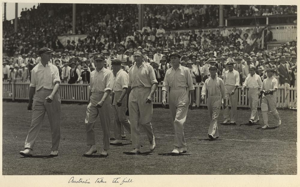 Creator: Unidentified. Location: Brisbane, Queensland. Description: Cricket players on the Australian team walk out in front of the Exhibition Grounds' grandstand. Caption reads: Australia takes the field. This image is part of the Sir John Goodwin Photograph Albums collection at State Library of Queensland. Collection reference 7166, Album: APU-17. View this page at the State Library of Queensland: Information about State Library of Queensland’s collection: You are free to use this image without permission. Please attribute State Library of Queensland.